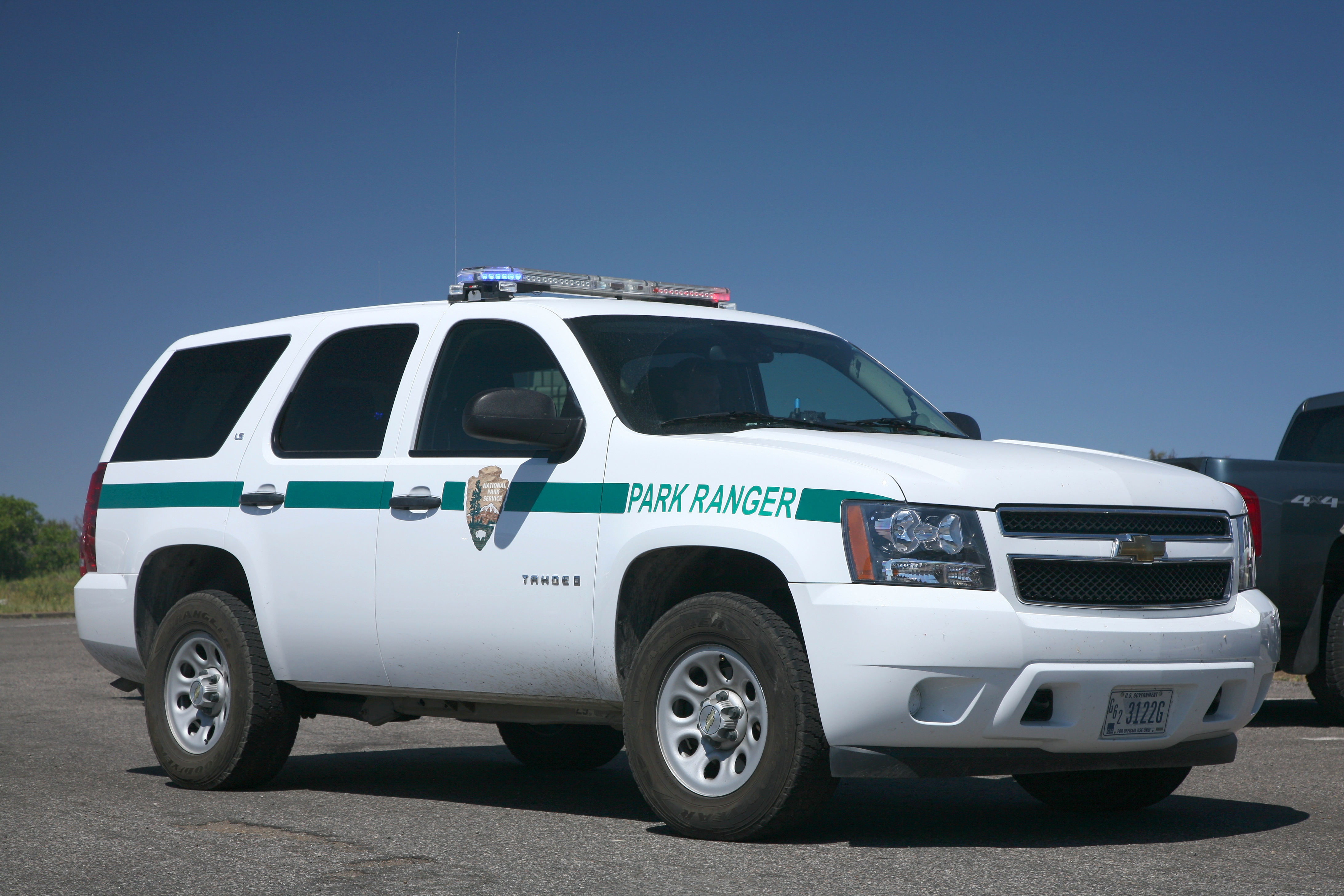 National Park Service ranger vehicle in Mesa Verde National Park, Colorado